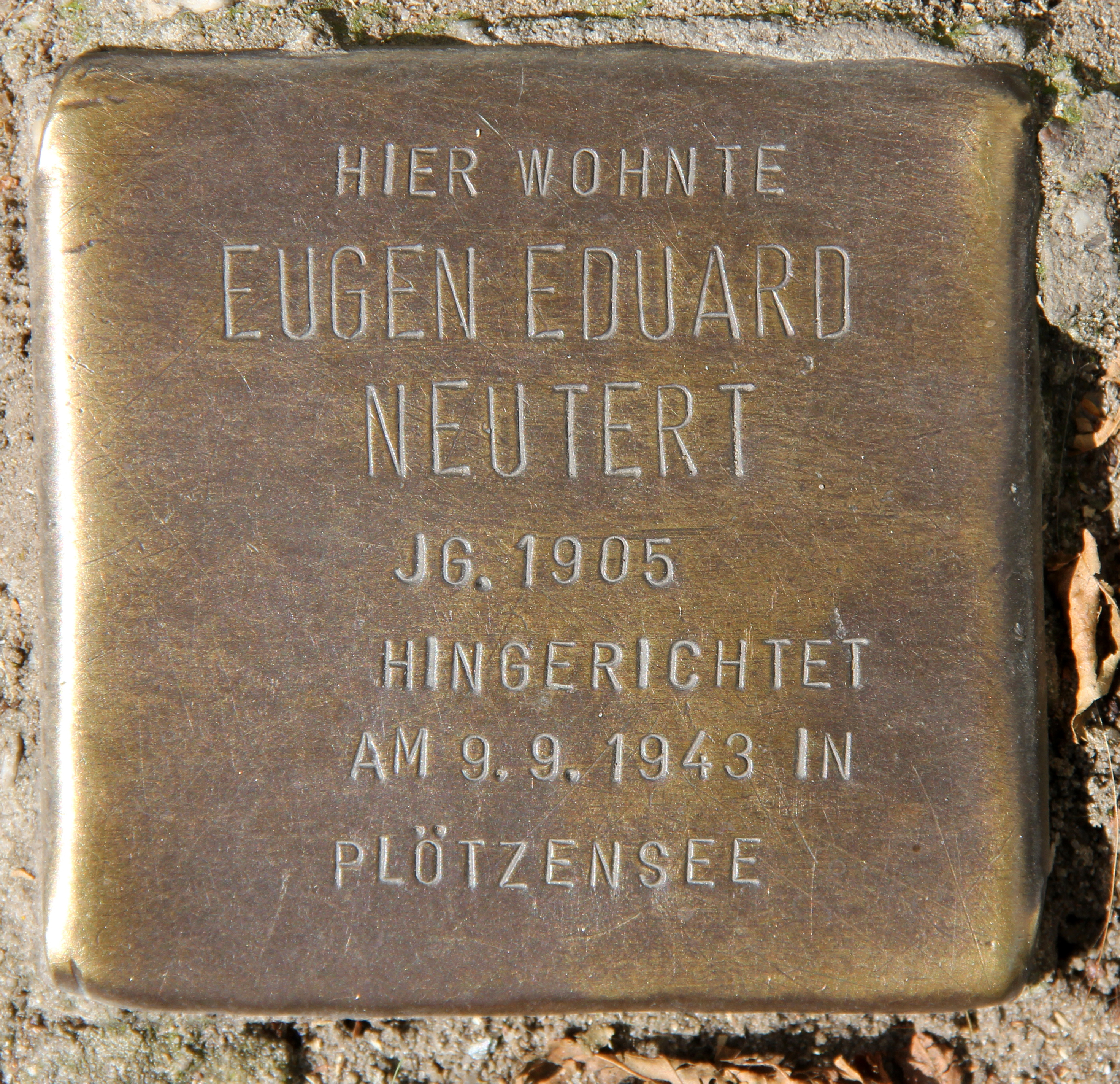 "Stolperstein" (stumbling block), Eugen Neutert, Richard-Sorge-Straße 65, Berlin-Friedrichshain, Germany